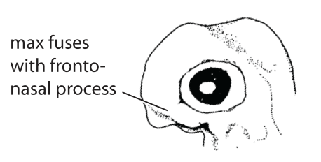 Standard Event System character depiction